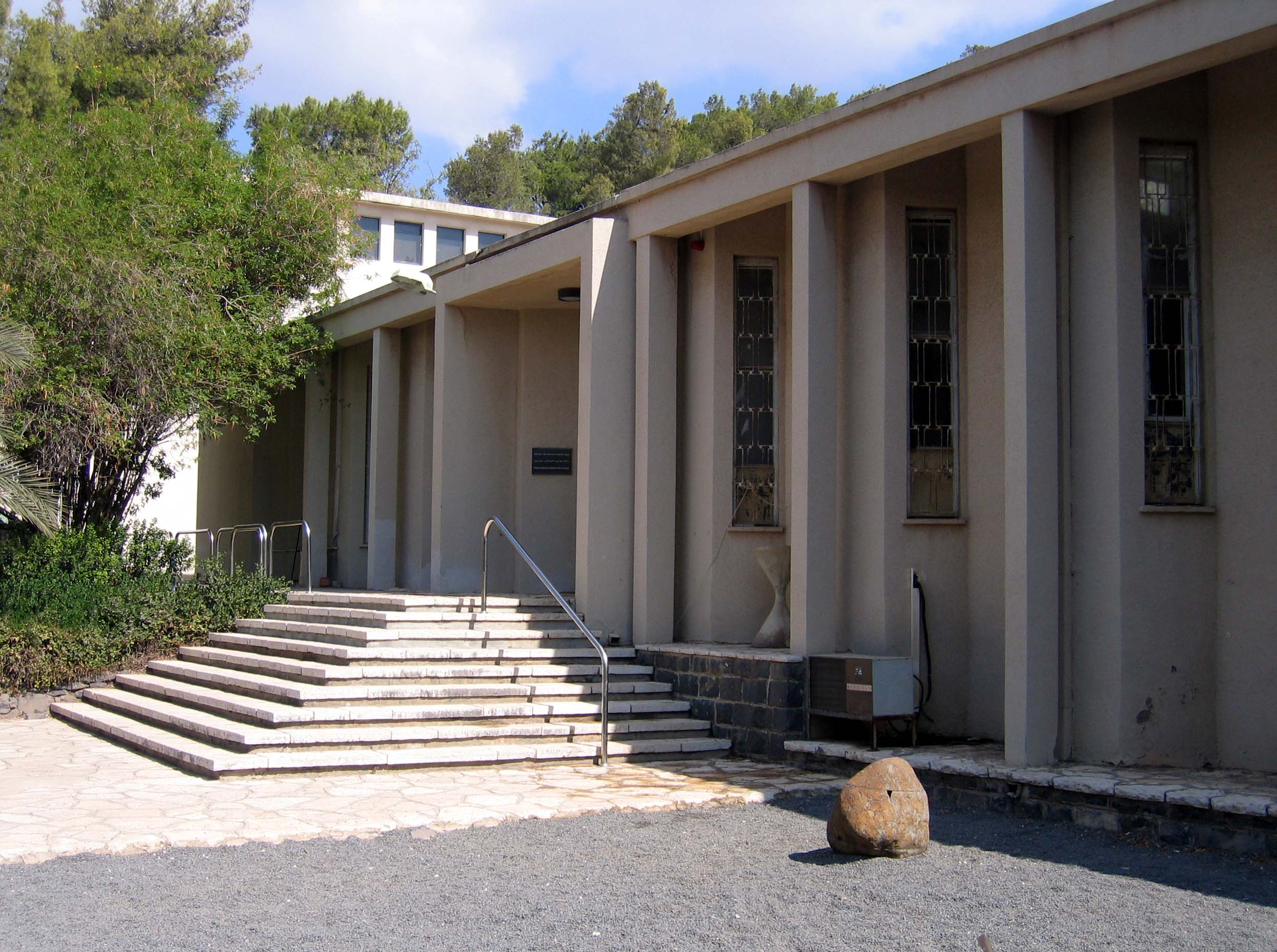 Museum of Art, Ein Harod